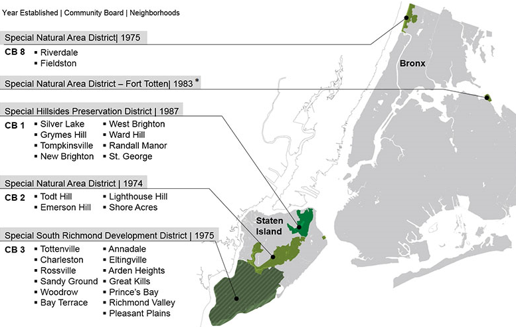 NYC Preservation Districts